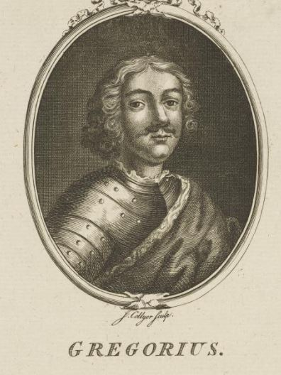 Giric, king of Scots from 878-889 depicted in the 1800's as the latin name Gregorius by Alexander Bannerman.